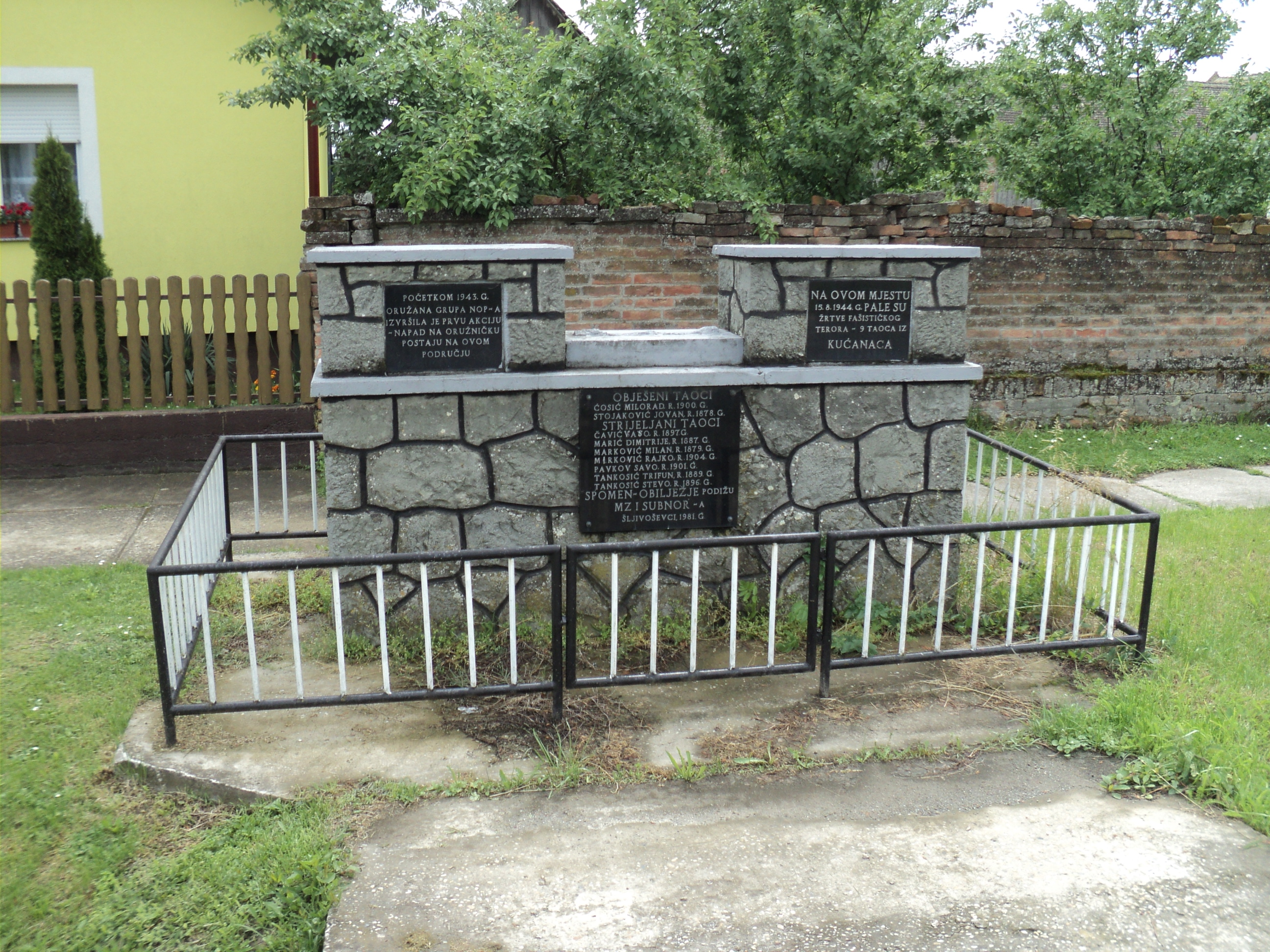 Monument to the first Yugoslav partisans's action in the village and victims of fascism in Šljivoševci, Croatia.